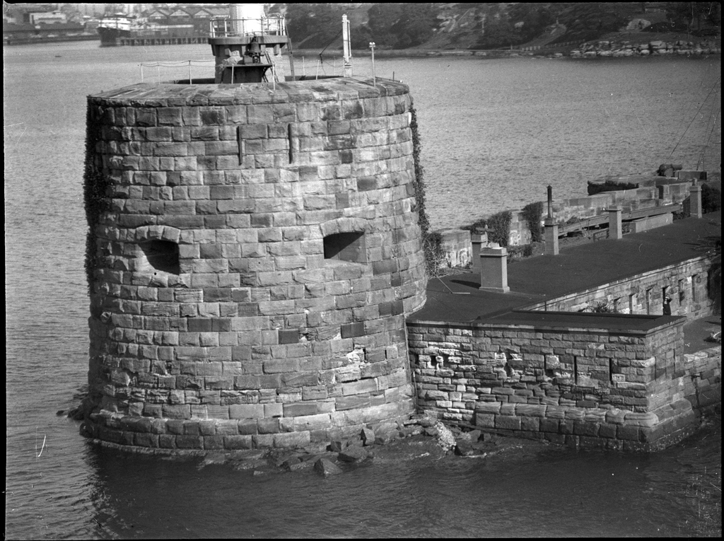 A photo from the Tom Lennon Photographic Collection from the Powerhouse Museum. This files was posted to Flickr by The Powerhouse Museum (See their website for further information). Many thanks to the Powerhouse Museum for helping release this wonderful material. This tag does not indicate the copyright status of the attached work. A normal copyright tag is still required. See Commons:Licensing for more information.